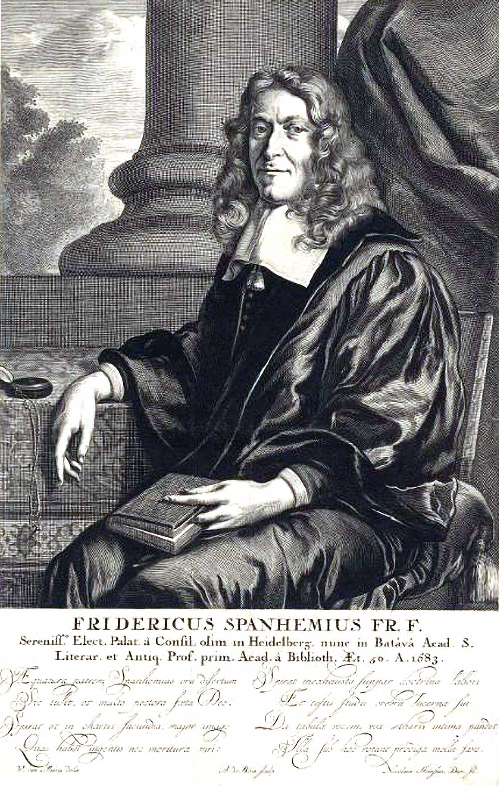 Friedrich Spanheim the Younger (1632-1701) Swiss Reformed theologian